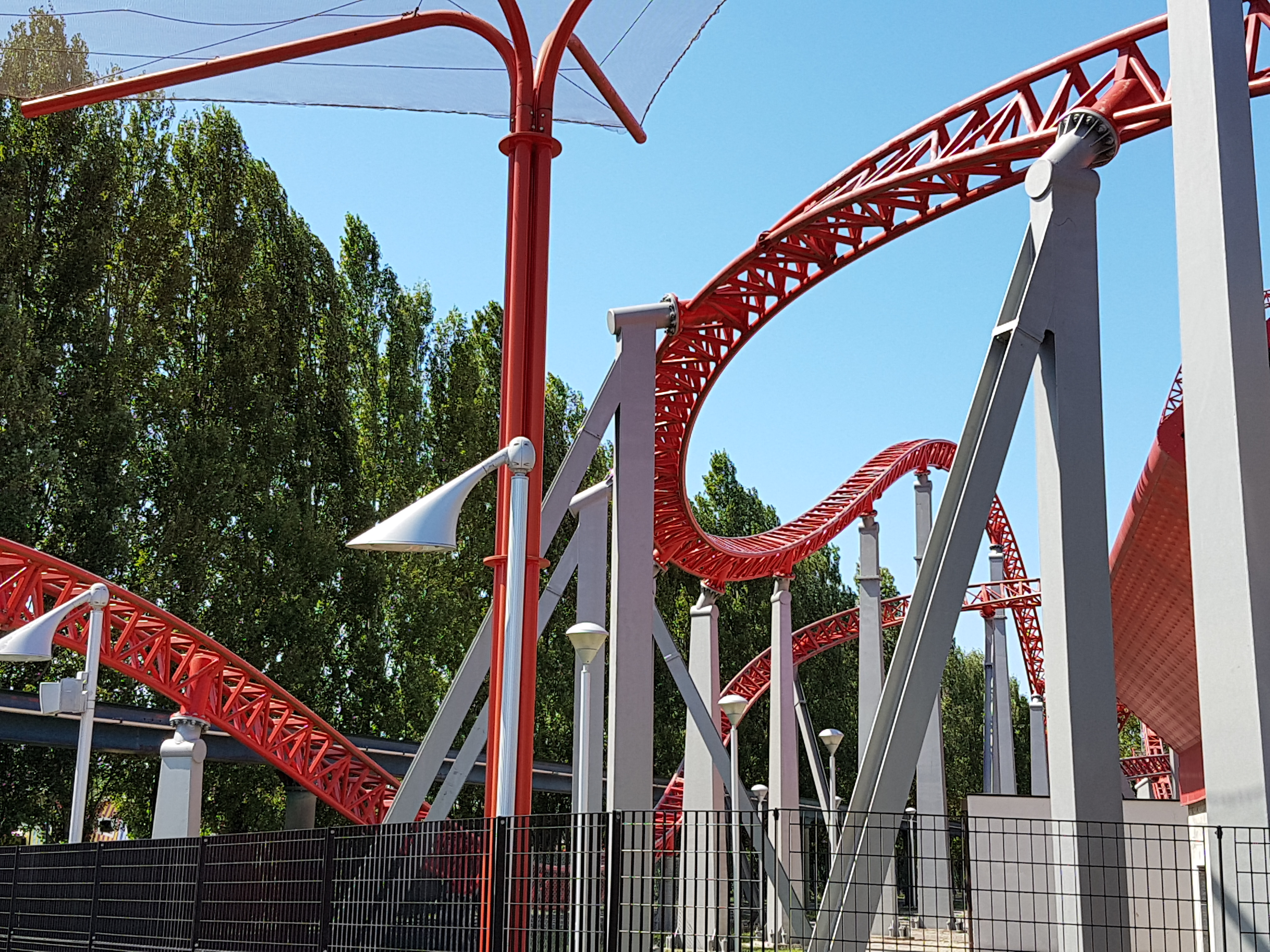 Central section of ISpeed in Mirabilandia